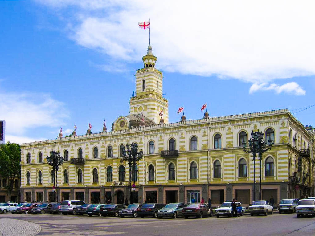 Tbilisi City Assembly building